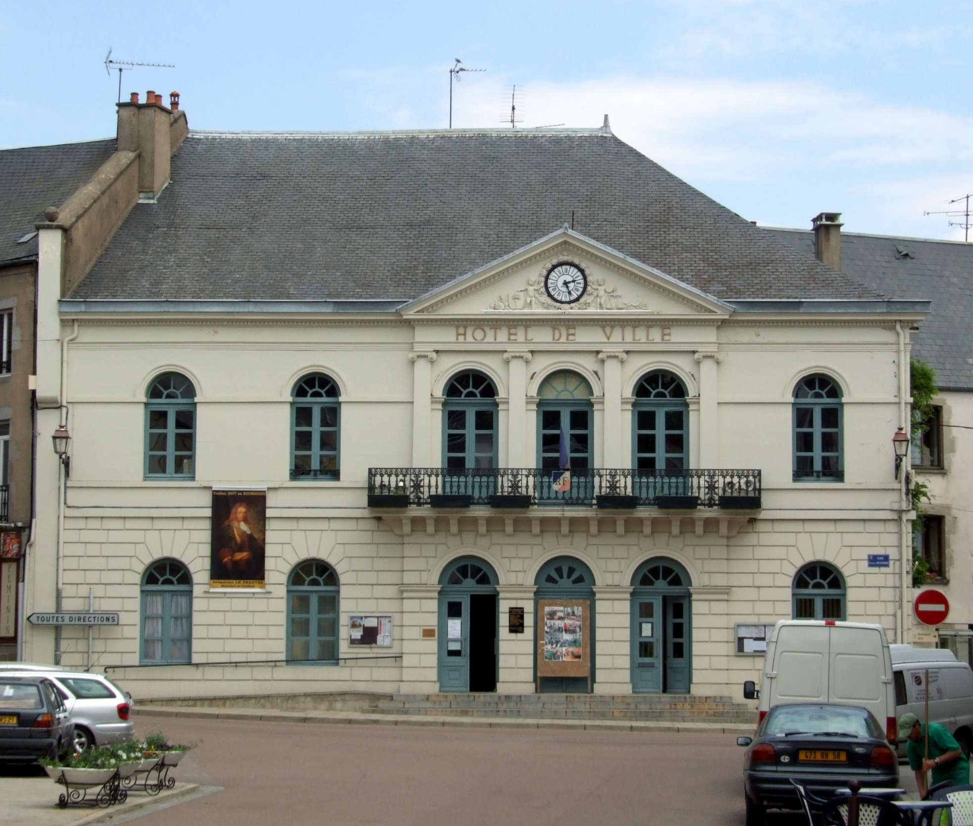 Lormes, Burgundy, FRANCE